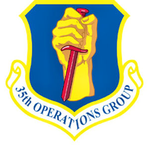 Emblem of the USAF 35th Operations Group